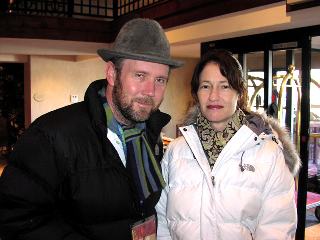 The directors of "Little Miss Sunshine", Jonathan Dayton and Valerie Faris on January 26, 2006.